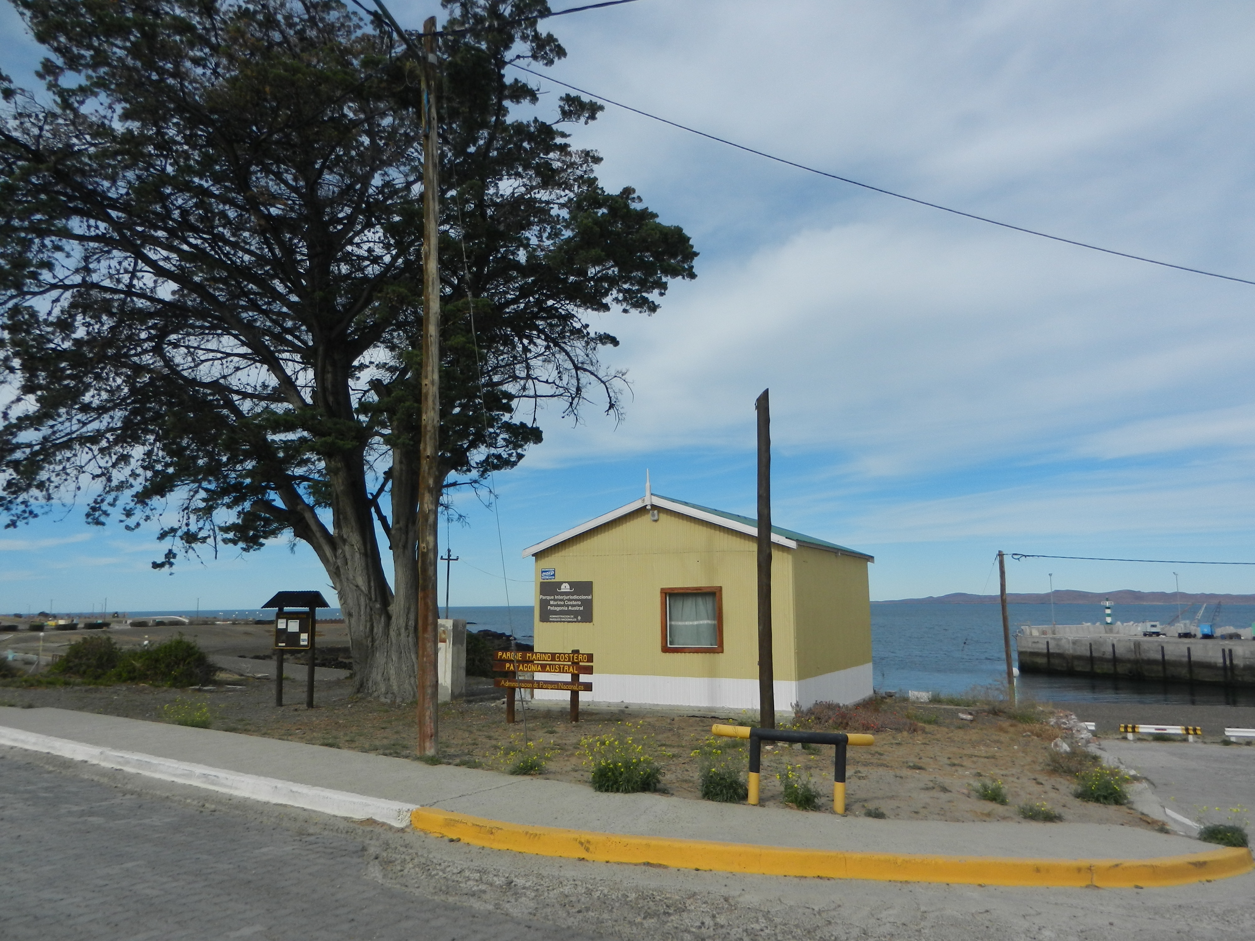 Camarones (Chubut): Declarado Poblado Histórico Nacional. La Comisión Nacional de Monumentos ha llegado a un acuerdo con el Municipio para la puesta en valor de las casas históricas con el aporte de materiales de construcción y asesoramiento profesional. Las obras comenzarán en el mes de octubre. La Comisión Nacional de Monumentos, en colaboración con Parques Nacionales y la Dirección Nacional de Arquitectura ha elaborado el proyecto de recuperación del Faro Leones, que fue presentado para su financiación.